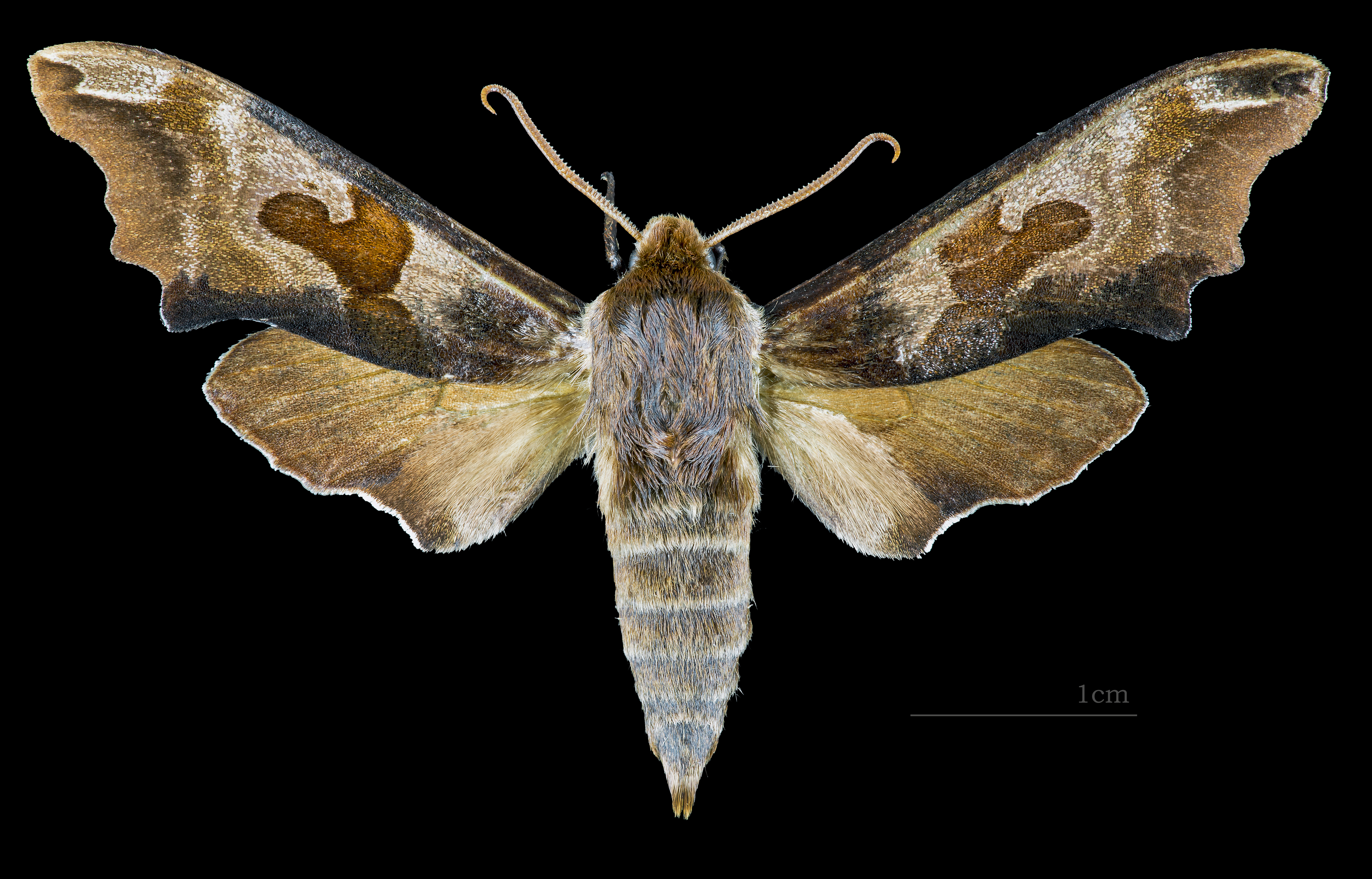 Mimas christophi - Dorsal side Collection of the Mathematician Laurent Schwartz